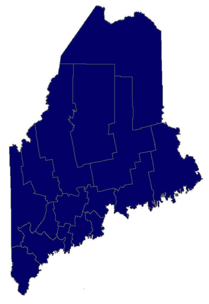 Map of the 1982 Maine Governor's race returns by country